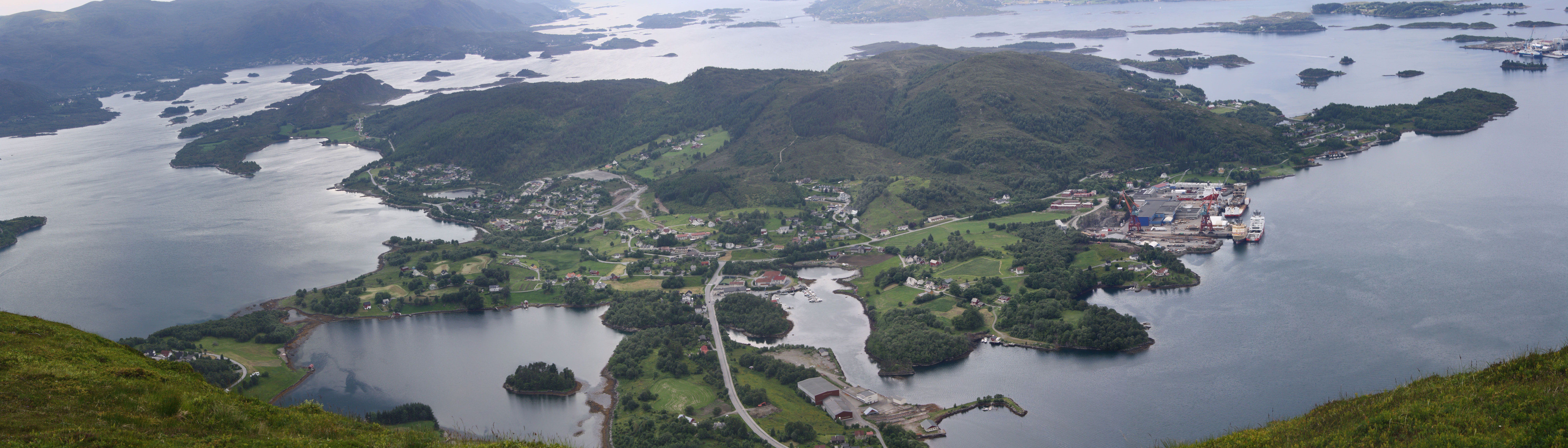 The Dimna island, seen from the peak Hasundhornet just outside Ulsteinvik city